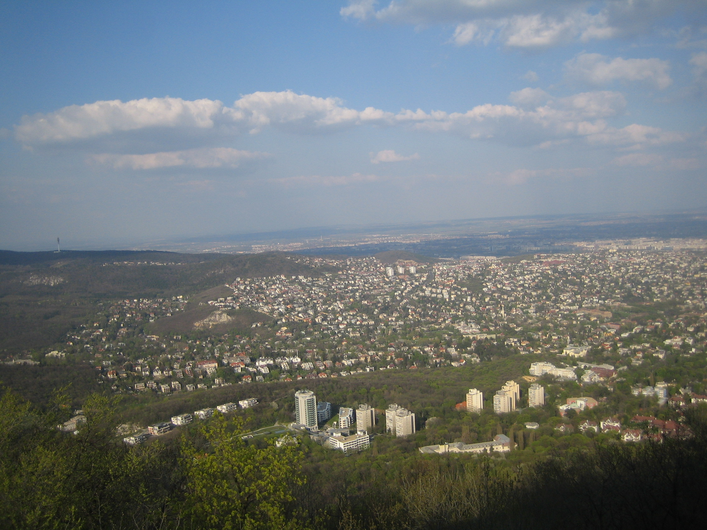 View from Janoshegy Hill Watchtower, Budapest